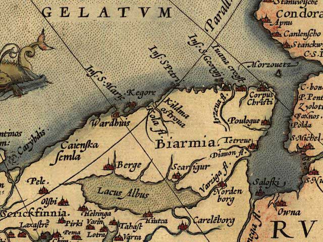 The shores of the Barents Sea and White Sea. A 1570 map from "Theatrum orbis terrarum", by Abraham Ortelius.